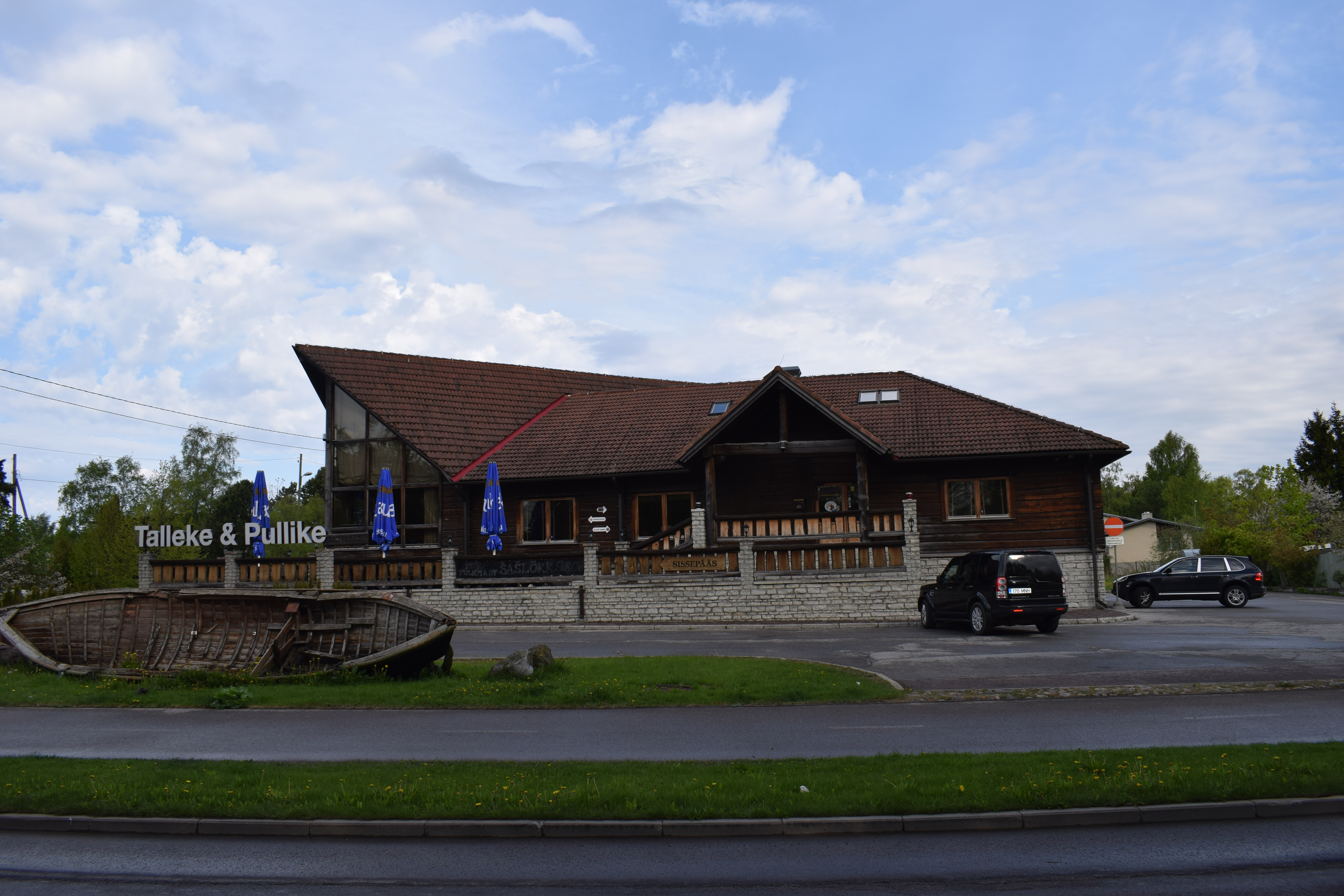 Kakumäe road 42